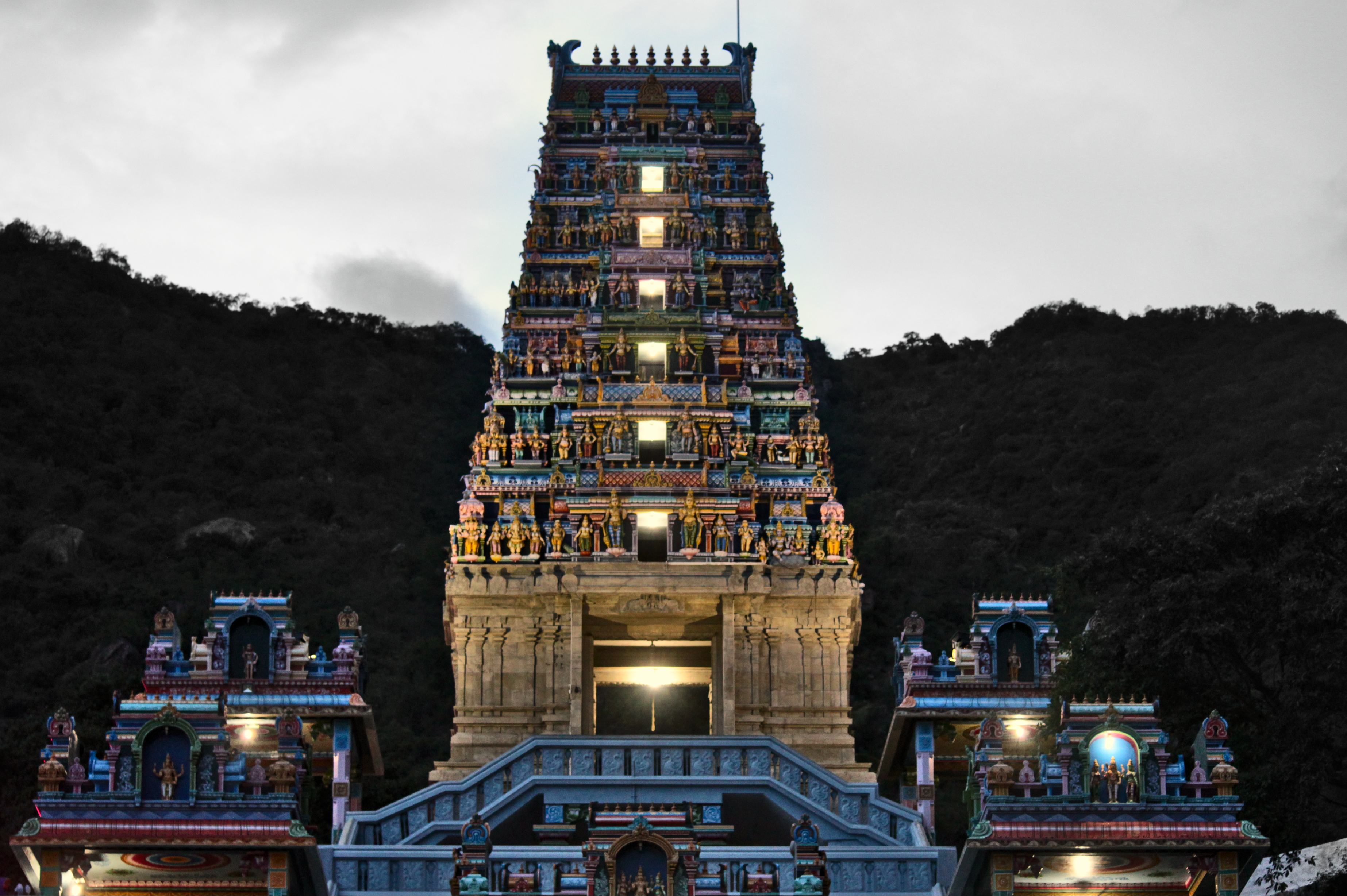 Marudhamalai Murugan Temple